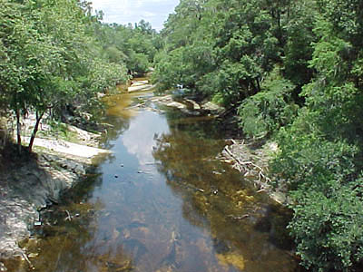 The Alapaha River at Statenville, Georgia during a period of drought in 2000.